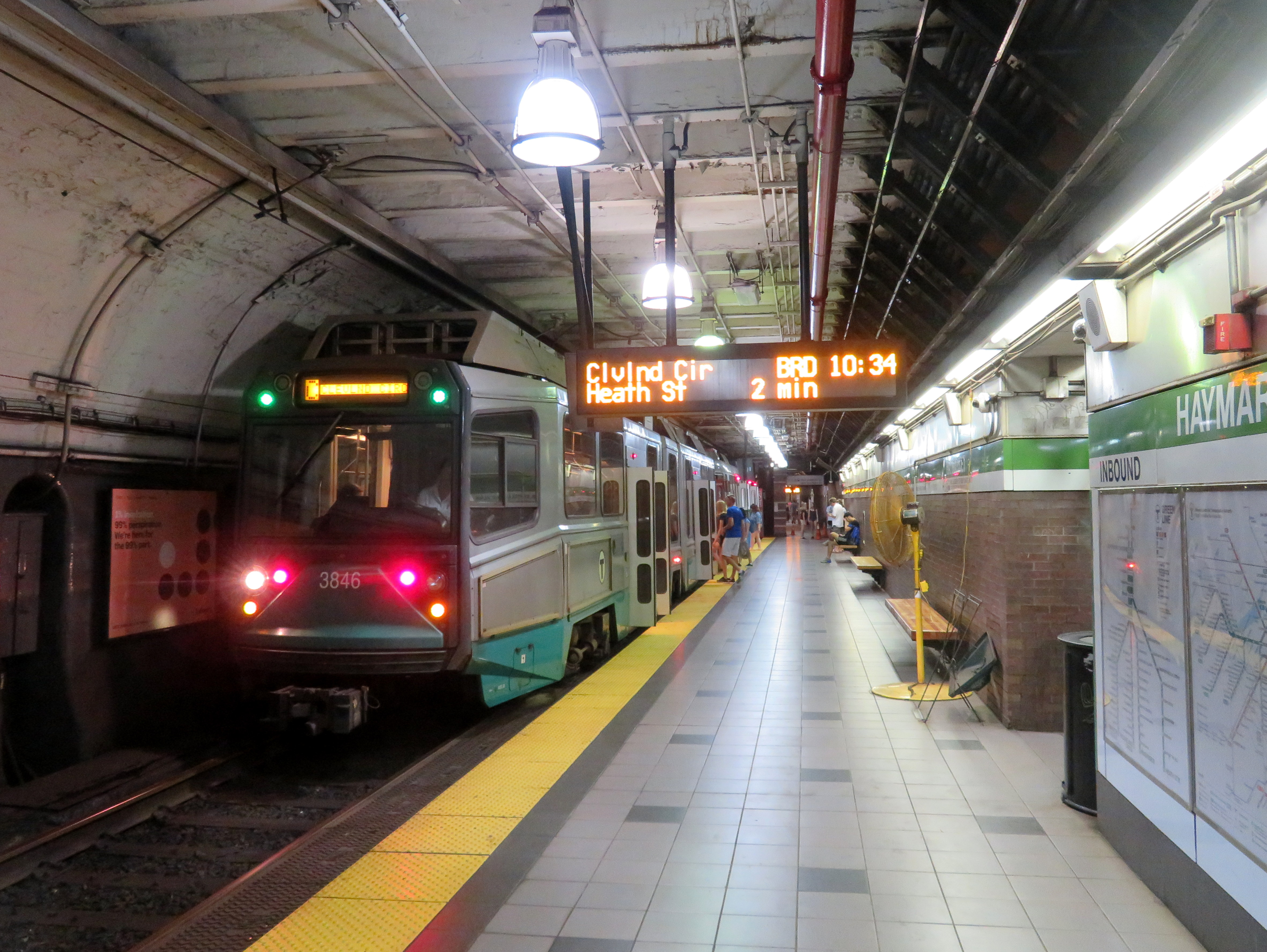 A southbound Green Line train at Haymarket station in July 2019